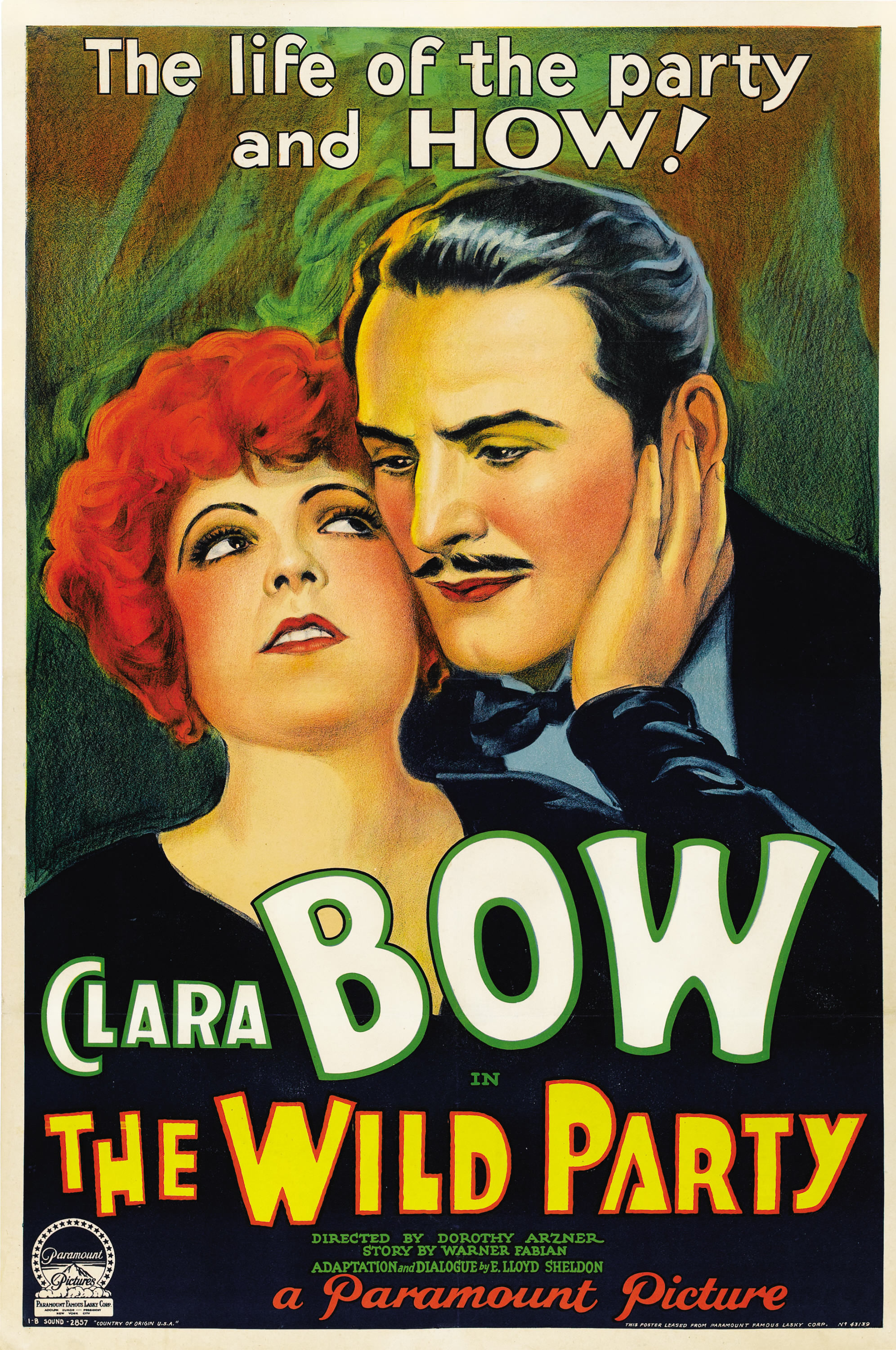 Film poster for The Wild Party, a 1929 film best known as Clara Bow's first talkie.